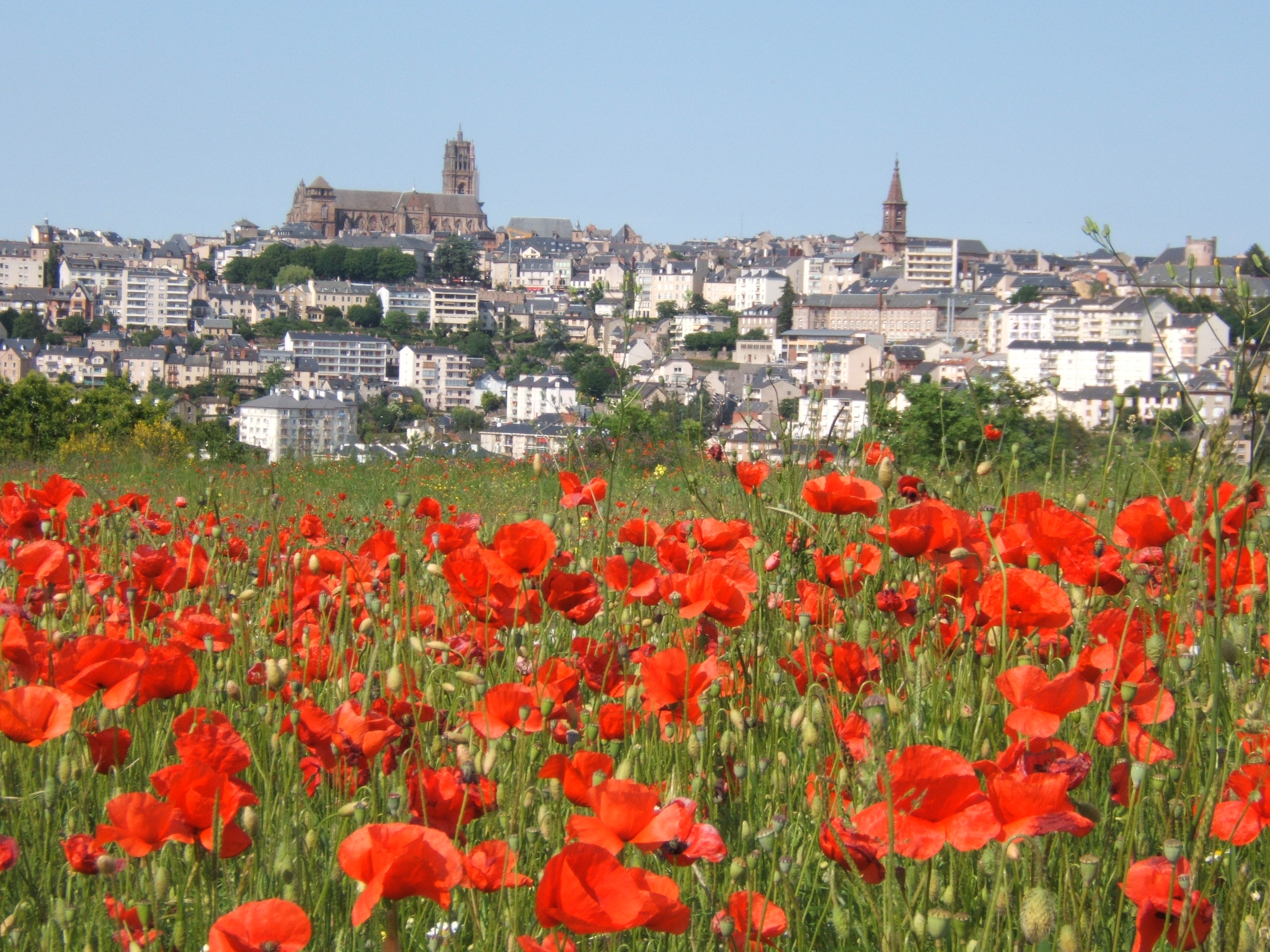 General view from the Olemps ring road.